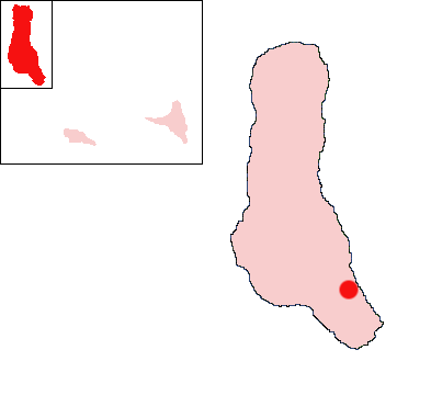 Mohoro, Grande Comore, Comoros Location Map; created with the GIMP. Made by User:Acntx.